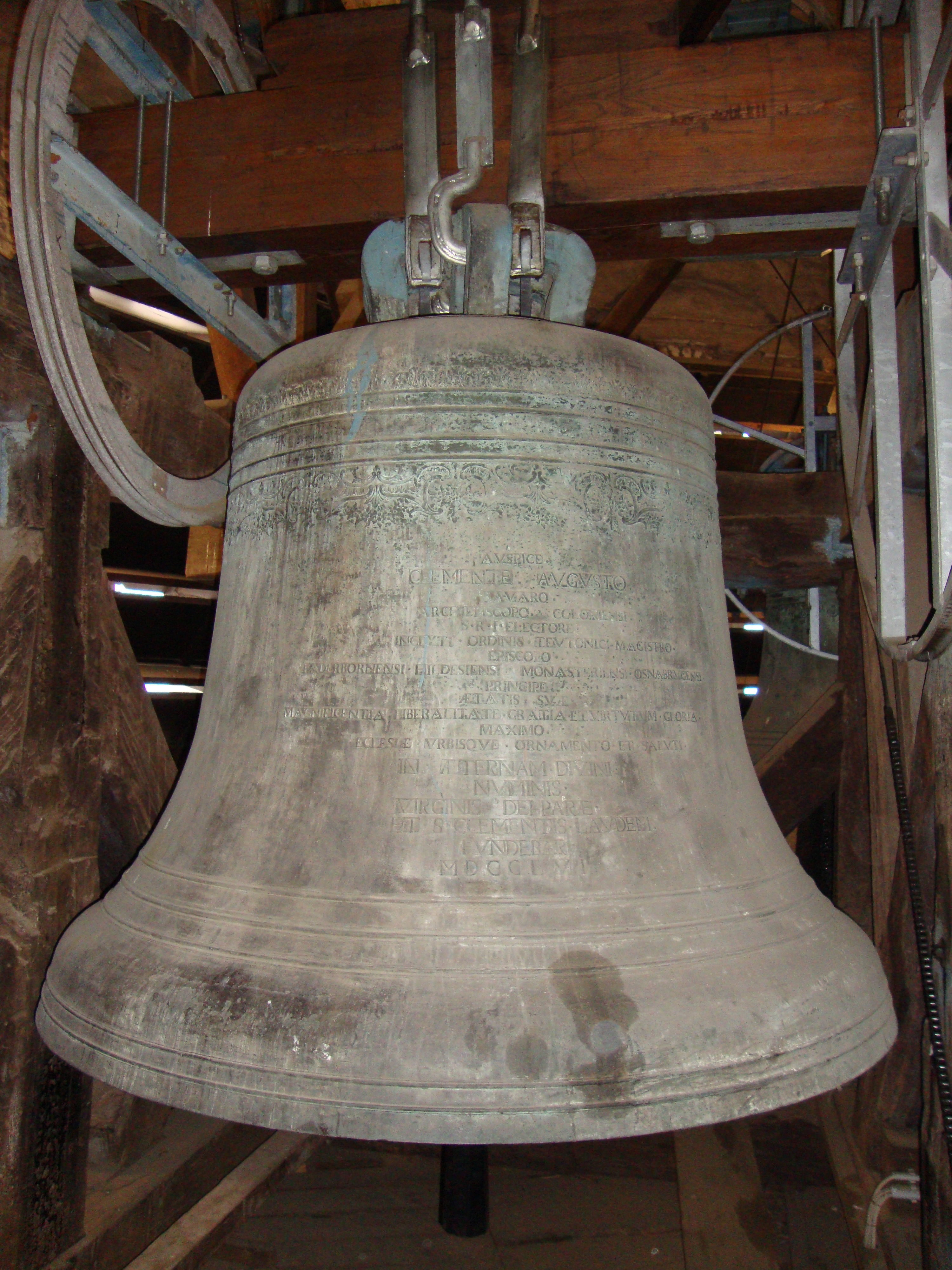 The Kurfürstenglocke (B flat) is the largest bell of Bonner Münster.